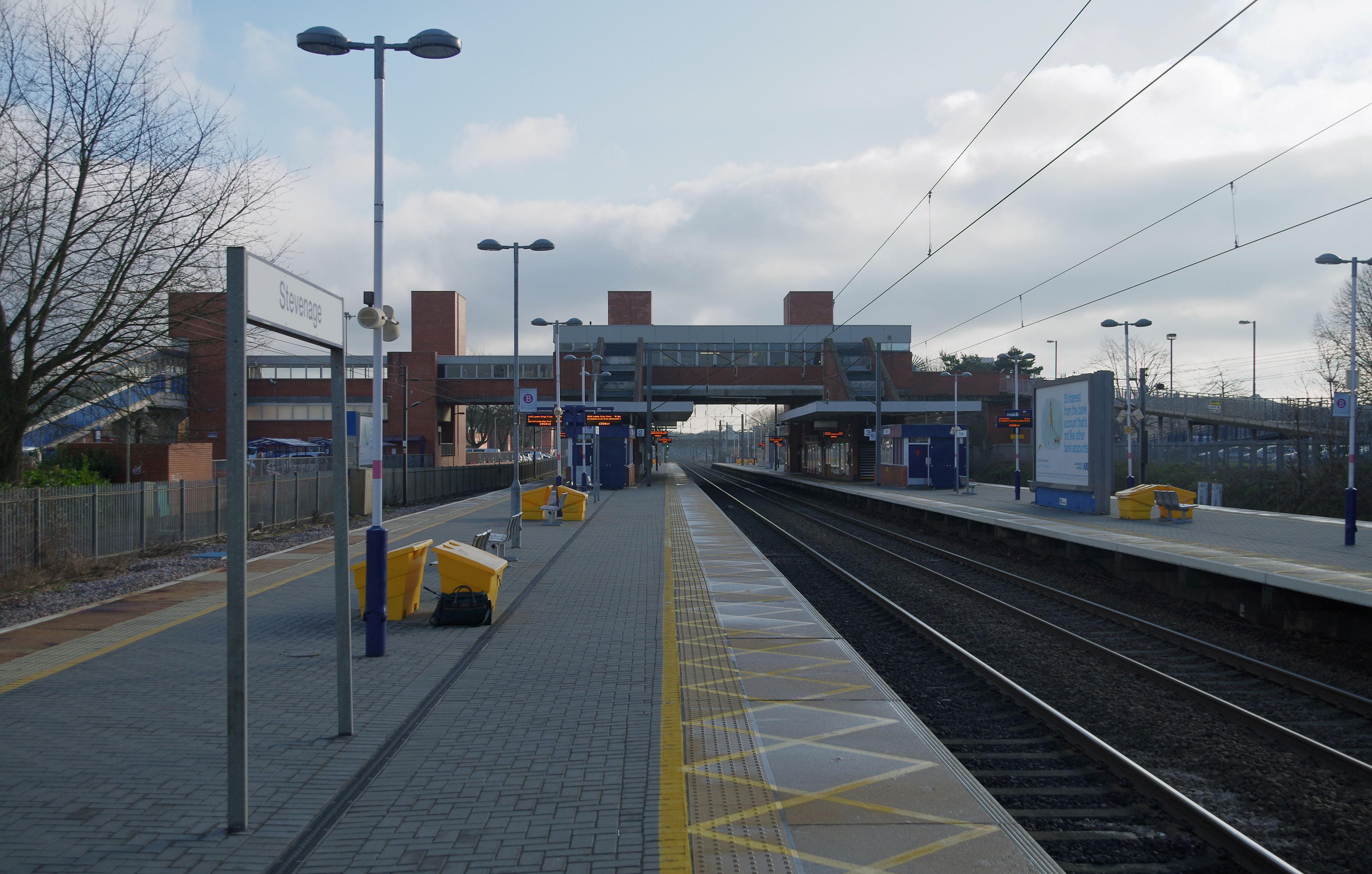 Looking south along the southbound platforms at Stevenage railway station.